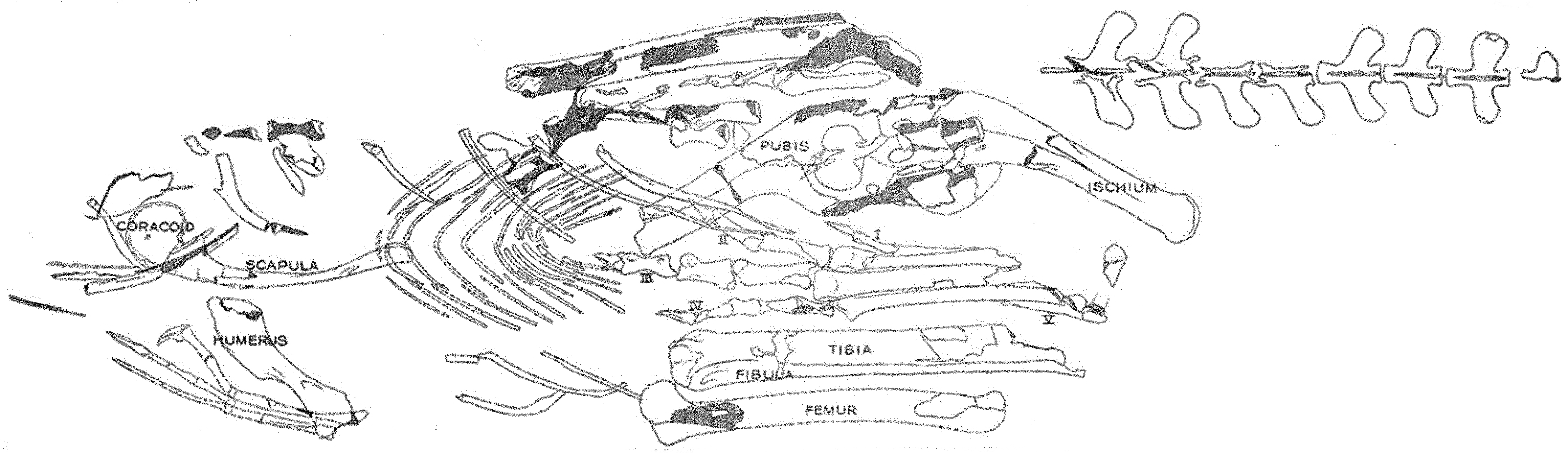 Illustration of the Segisaurus halli holotype skeleton, shown as it was found